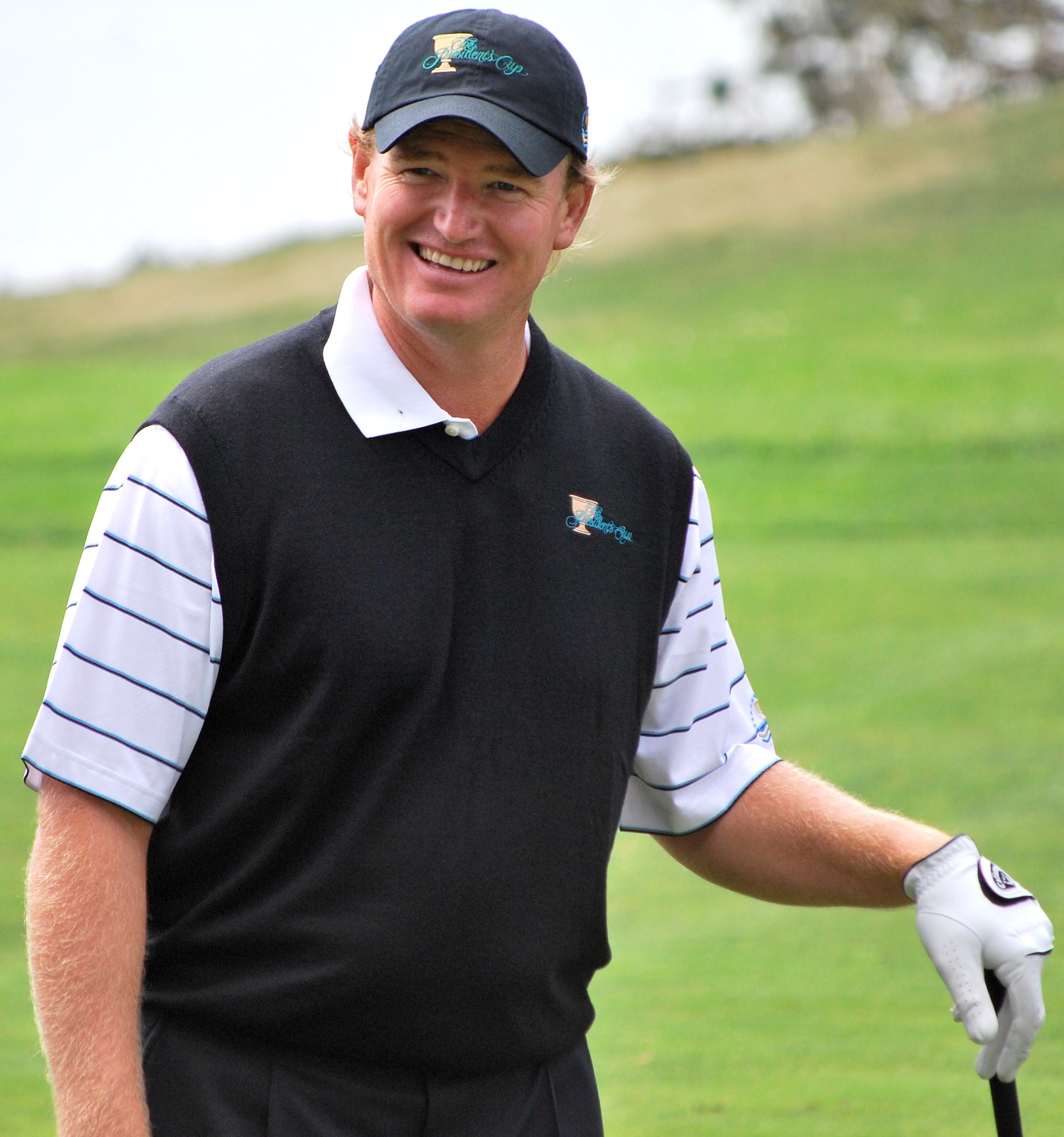 Photo of golfer Ernie Els at the 2009 President's Cup at Harding Park in San Francisco